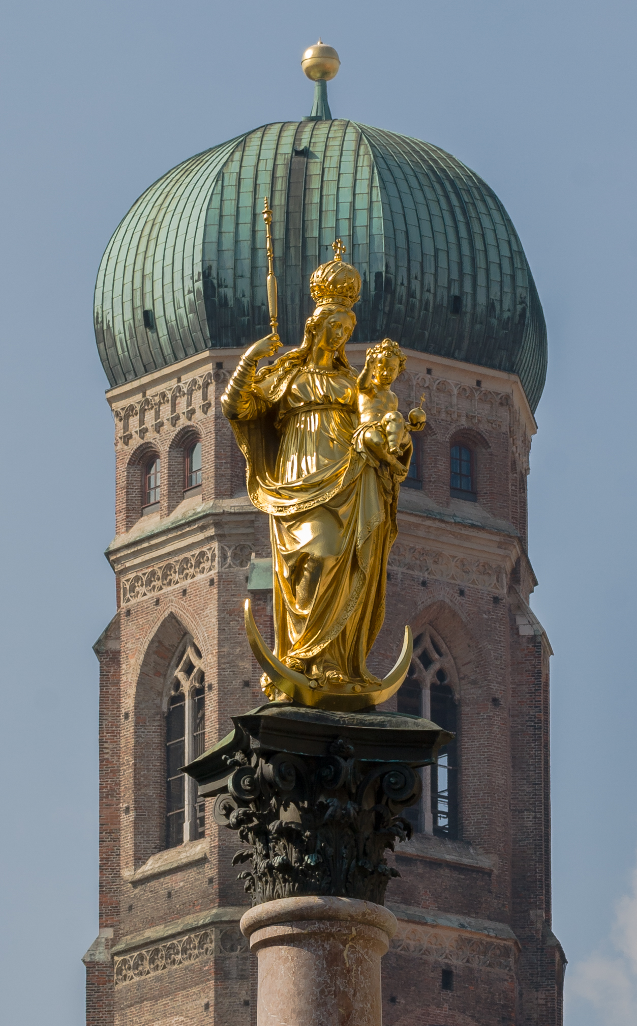 Mariensäule, Munich, Germany